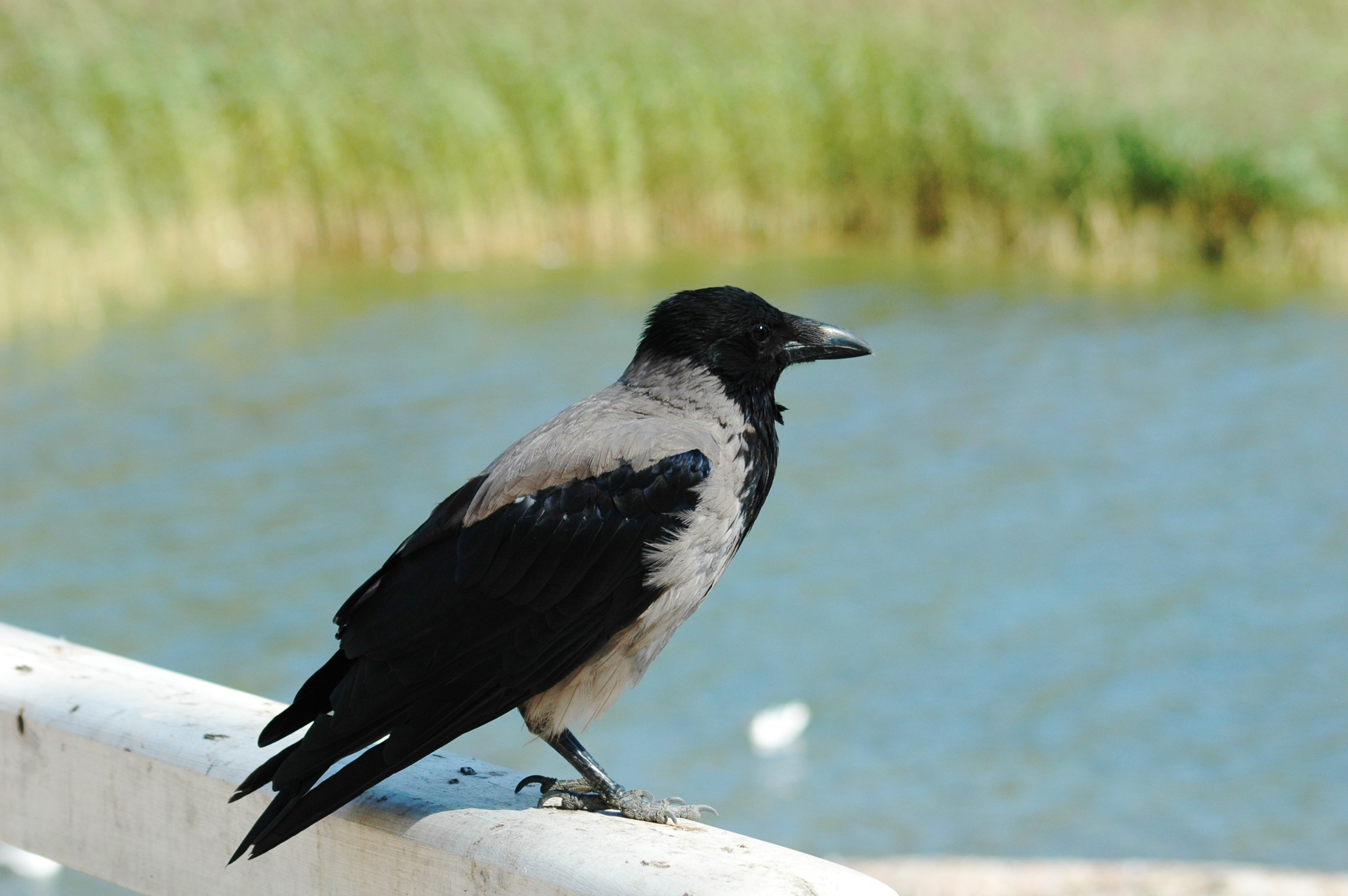 A crow (Corvus Cornix) on Helsinki, Finland